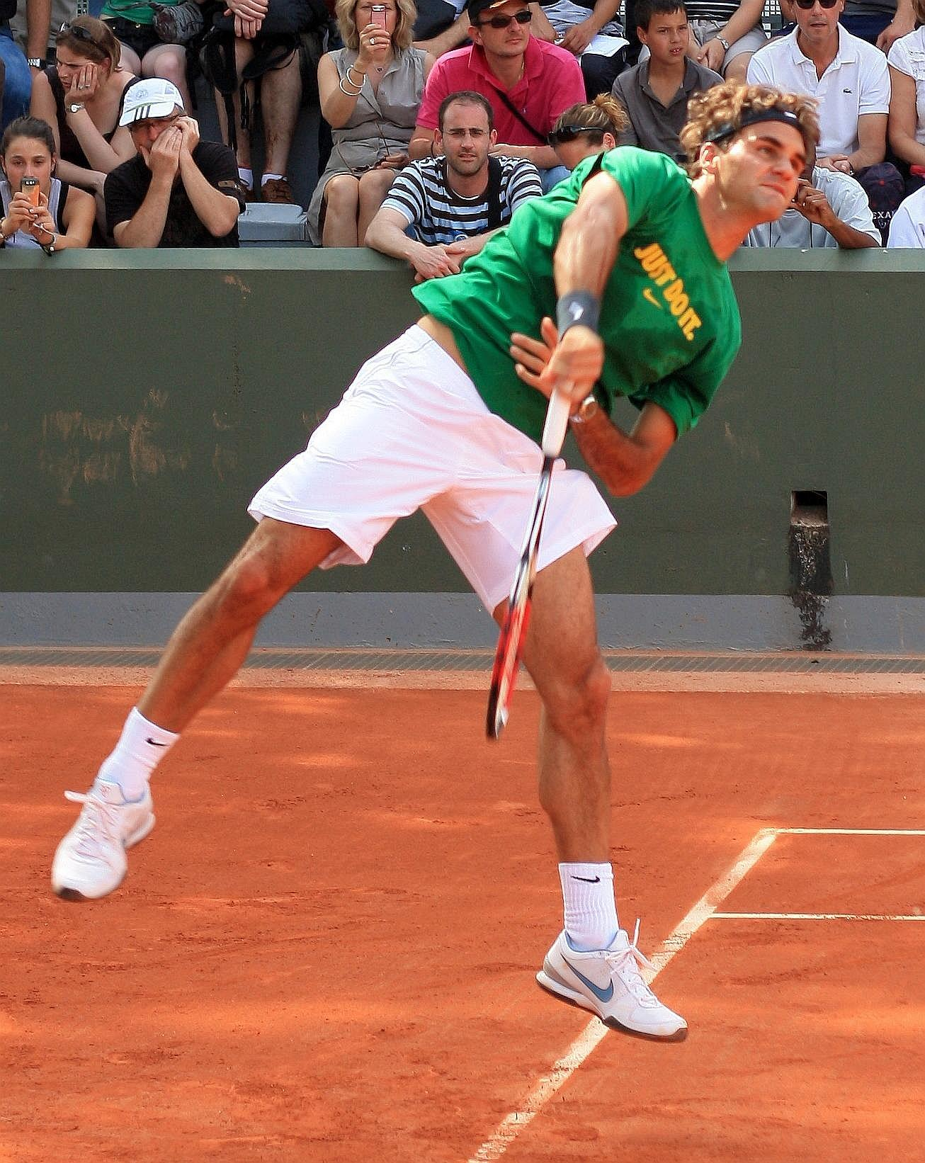 Roger Federer at 2009 Roland Garros, Paris, France